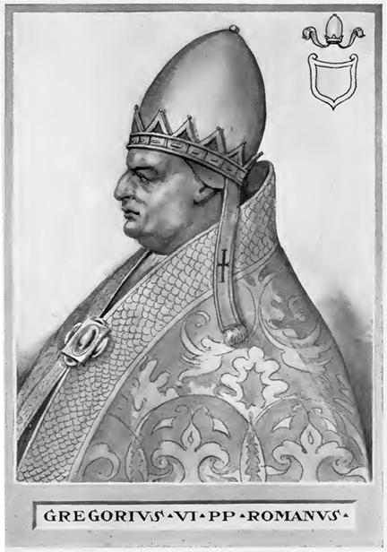 This illustration is from The Lives and Times of the Popes by Chevalier Artaud de Montor, New York: The Catholic Publication Society of America, 1911. It was originally published in 1842.